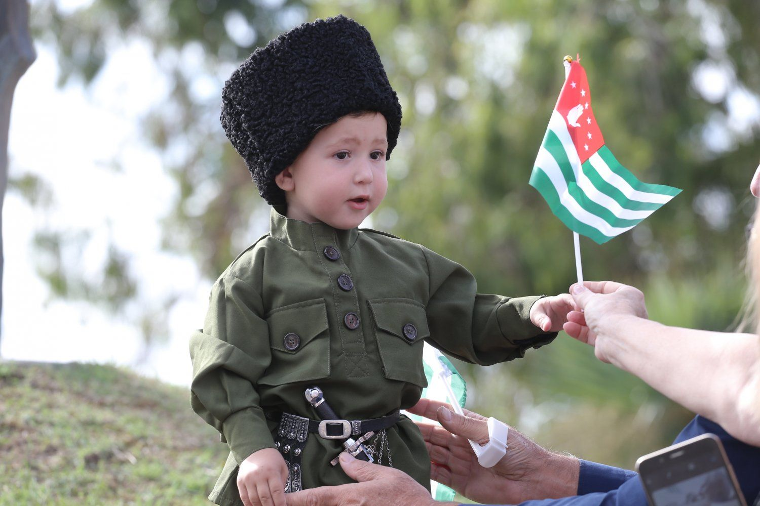 В сухумском Парке Славы состоялась церемония возложения цветов к памятнику павшим в Отечественной войне народа Абхазии 1992-1993 годов.